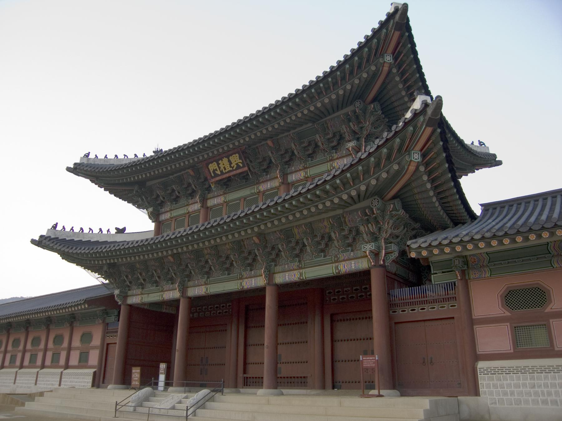 Heungryemun (gate) in Gyeongbokgung, Jung-gu, Seoul, South Korea